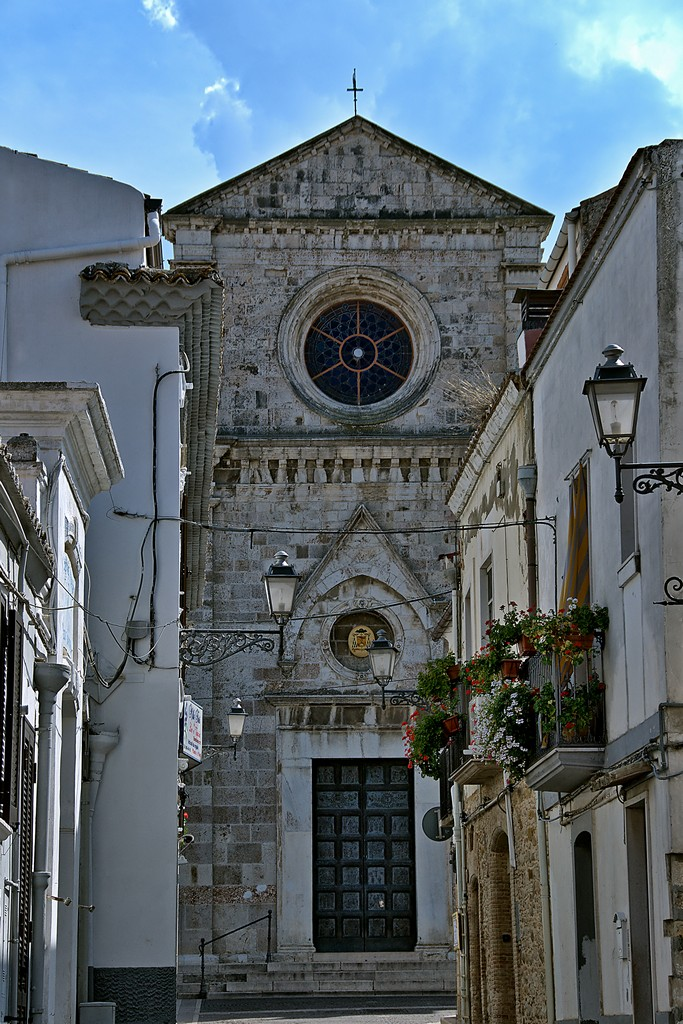 Church of the Nativity of the Blessed Virgin Mary, the cathedral of Ascoli Satriano